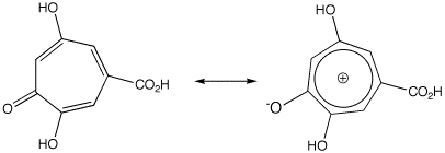 Spitatic acid